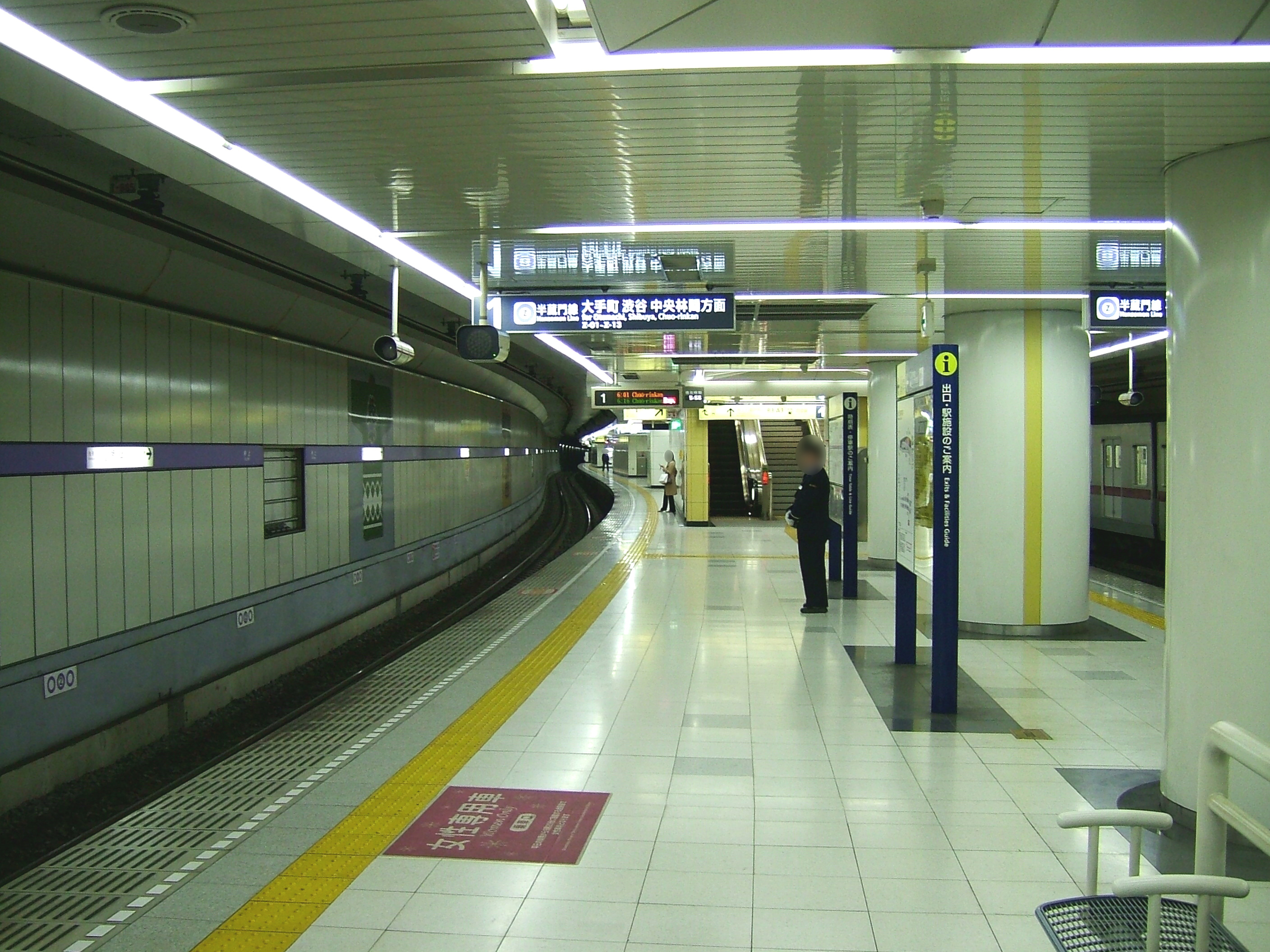 The Shibuya-bound(no.1 and no.2) platform at Oshiage Station on the Tokyo Metro Hanzōmon Line and Tōbu Isesaki Line in Sumida city, Tokyo, Japan